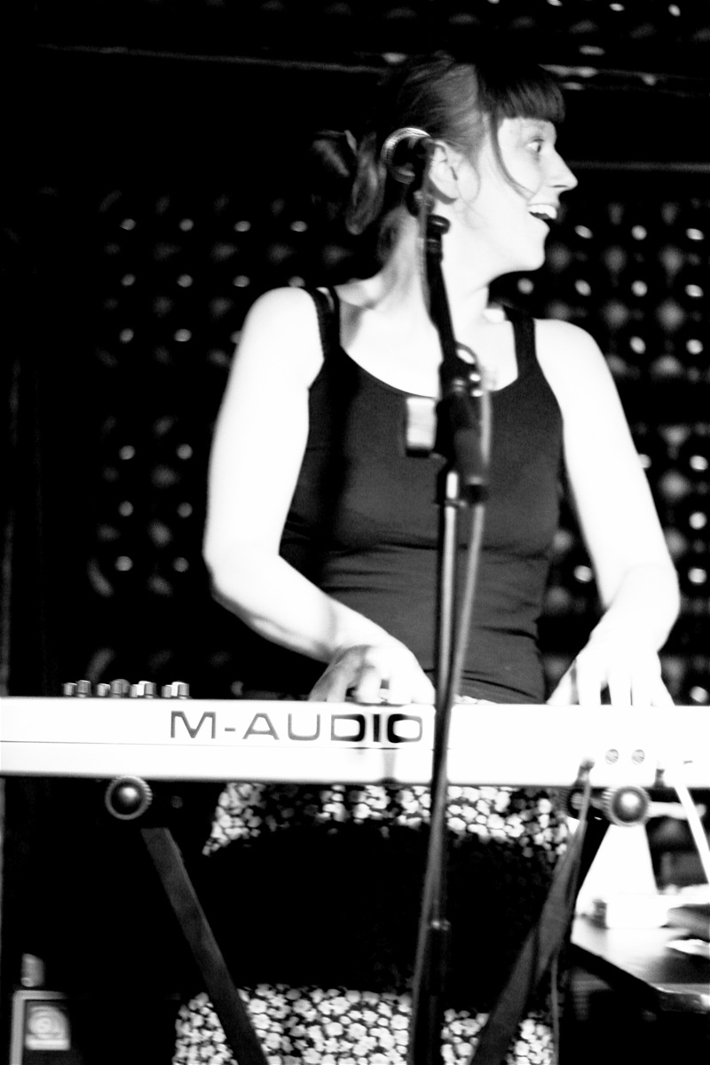 German electronic music artist Barbara Morgenstern performing at a concert with The Mountain Goats, USA, 2006Barbara Morgenstern